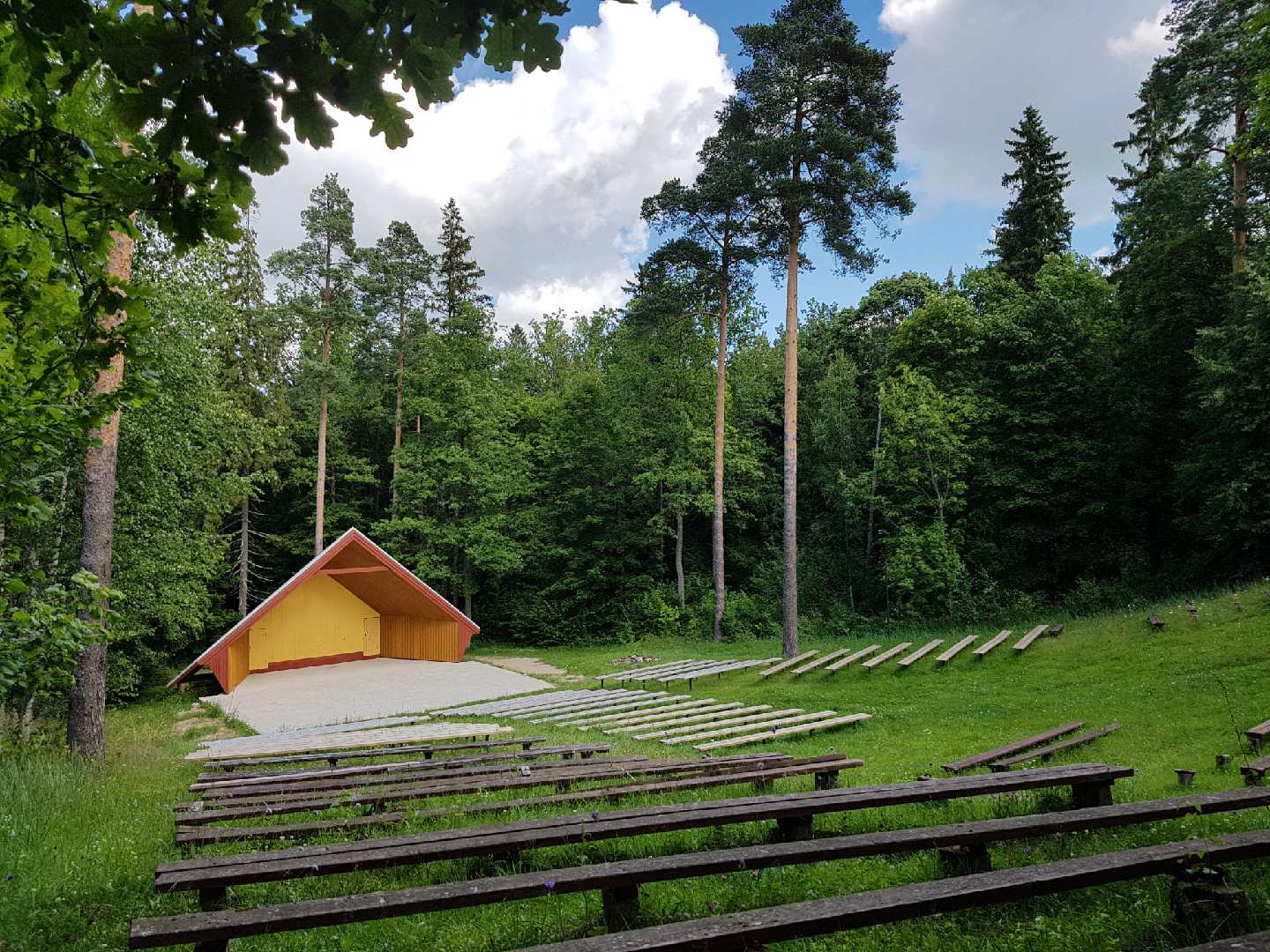 choir stand, song (festival) dais, song stadium